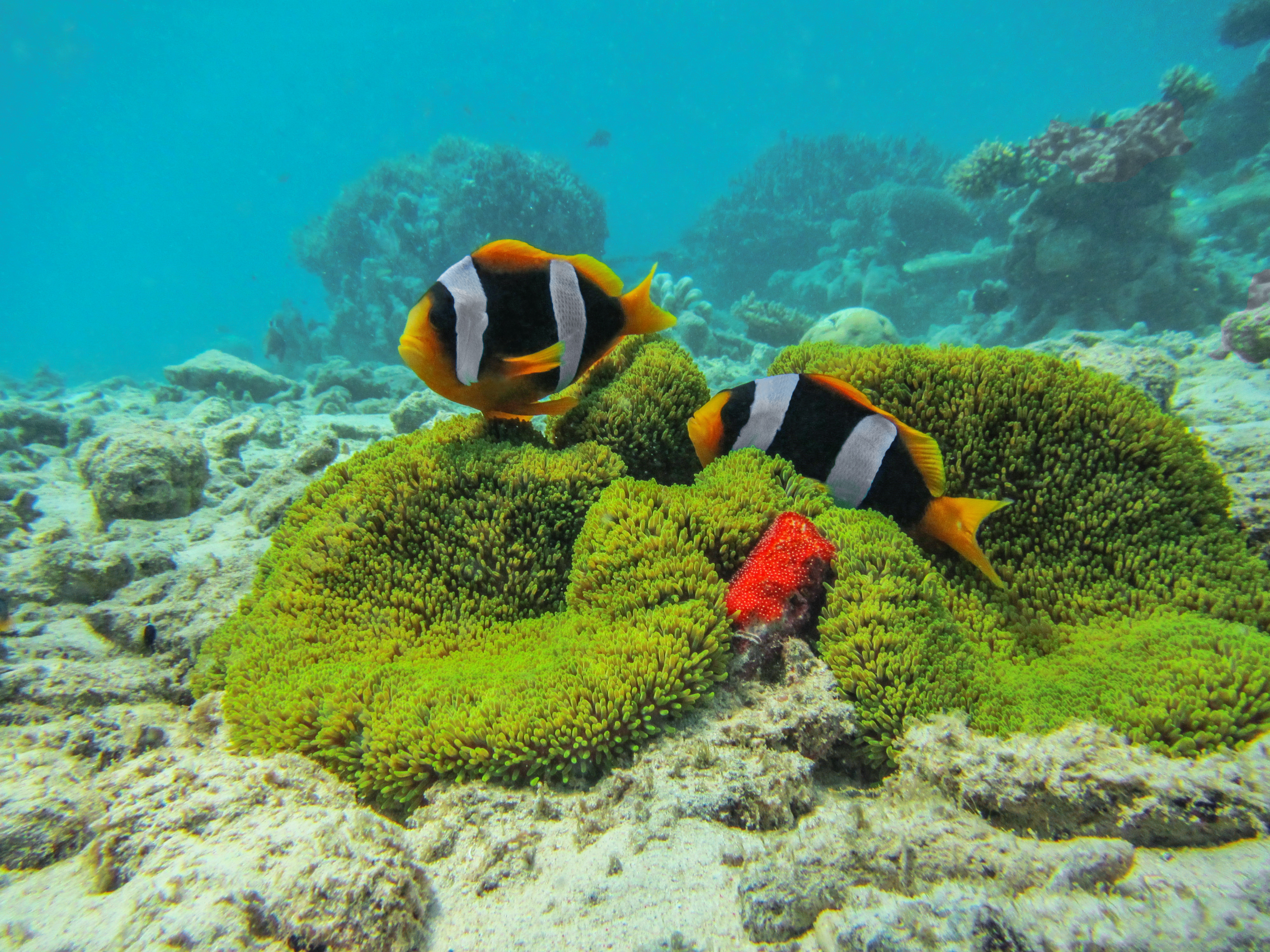 A couple of clownfish (Amphiprion cf. latifasciatus) protecting their red eggs, in their home anemone Stichodactyla mertensii, seen in the Marine natural park of Mayotte.